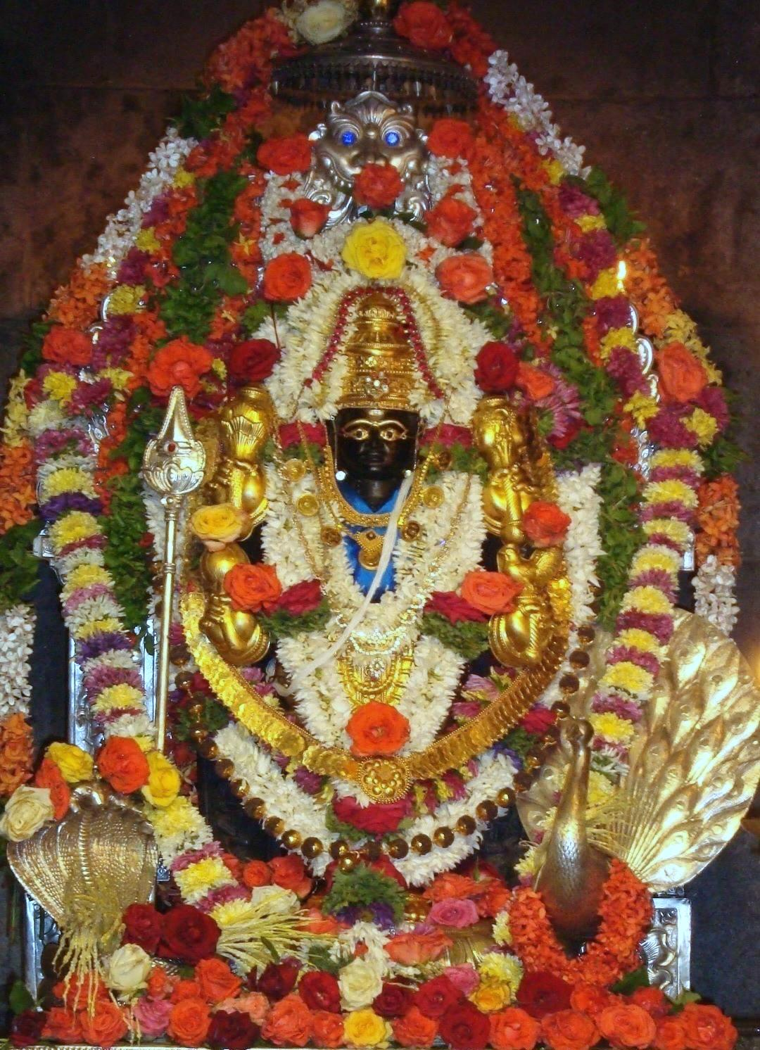 Photo of Hindu Diety